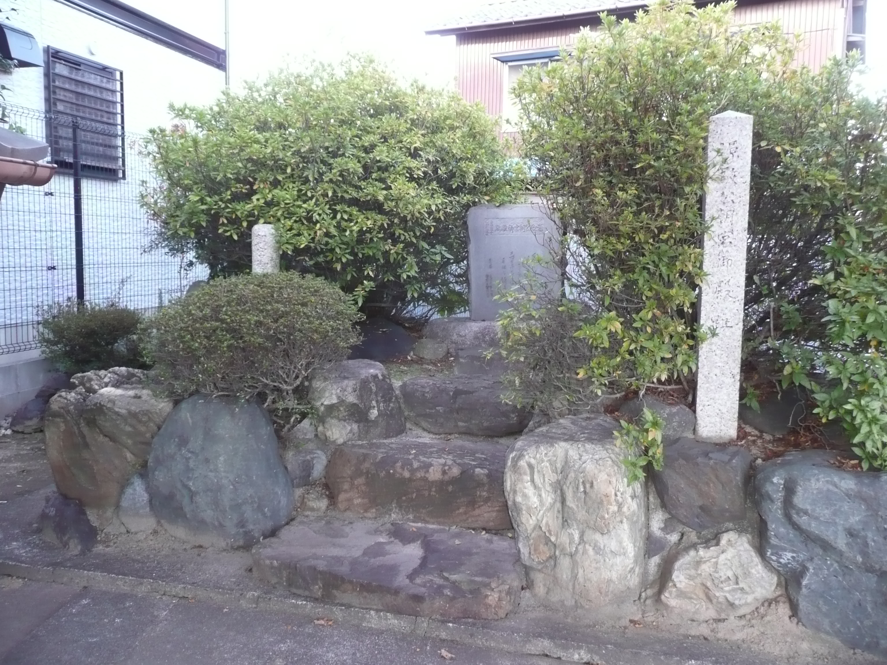 朝宮御殿の碑